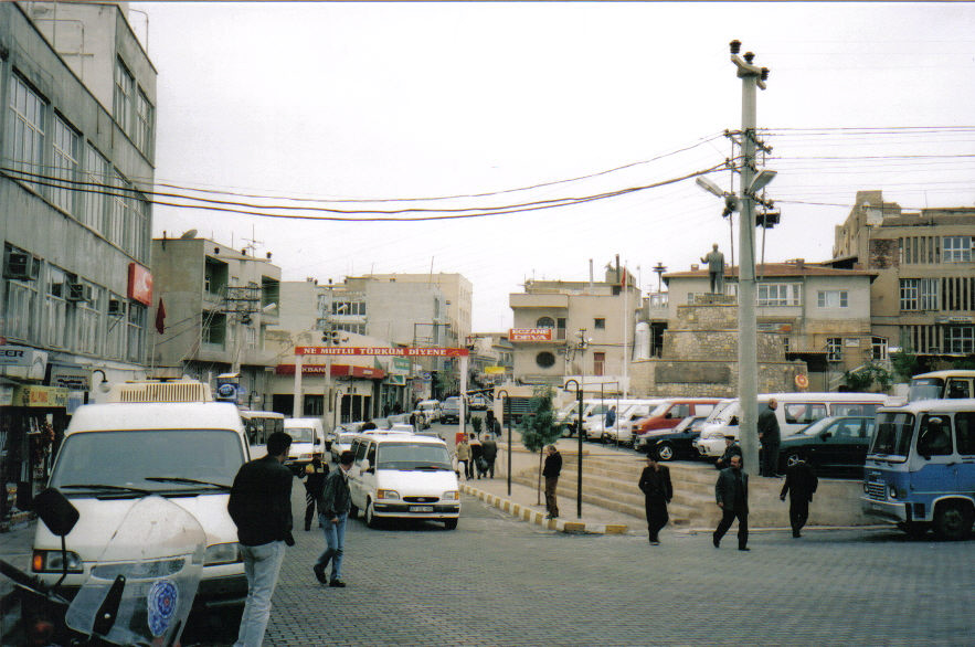 Mardin's Atatürk Square, in Southeastern Turkey, is the focus of local transport and shopping. (C) Gerry Lynch, 2003.